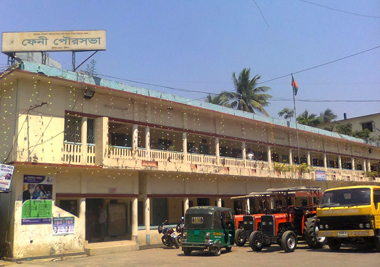 Feni Pouroshova Building